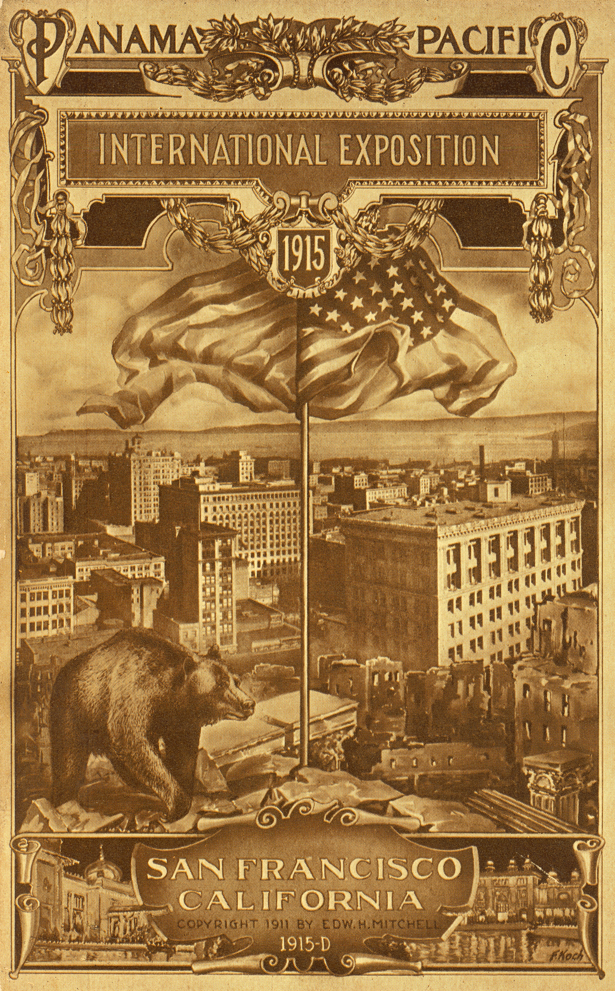 "Panama Pacific International Exposition 1915, San Francisco, California". Postcard showing new buildings in San Francisco with earthquake ruins and bear in foreground. Two small images of buildings of the Panama Pacific International Exposition at bottom.